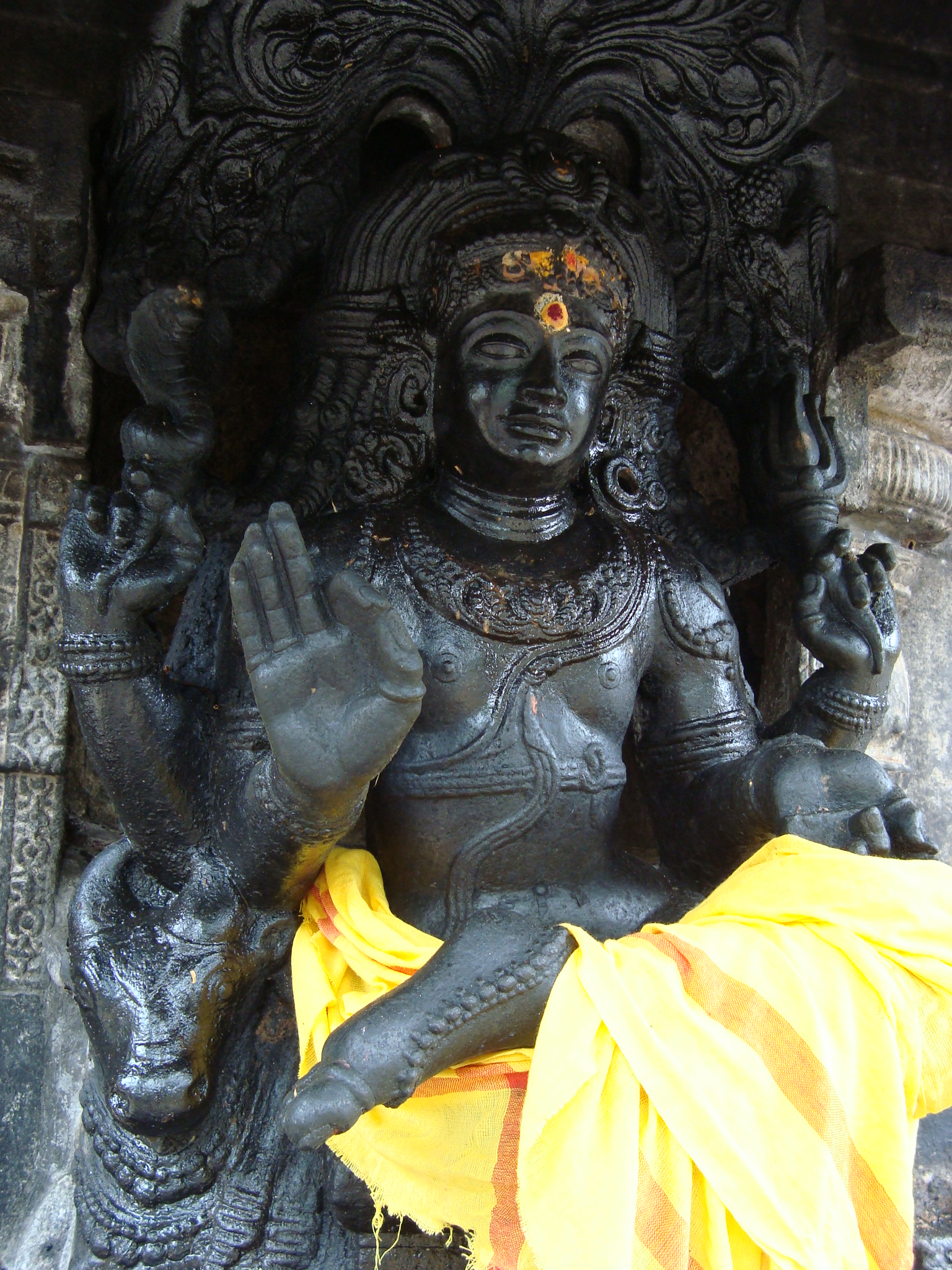 This is dakshanamoorthy statue in kadambur temple